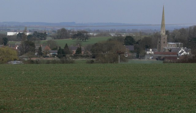 View towards Queniborough To the right is St Mary's Church.